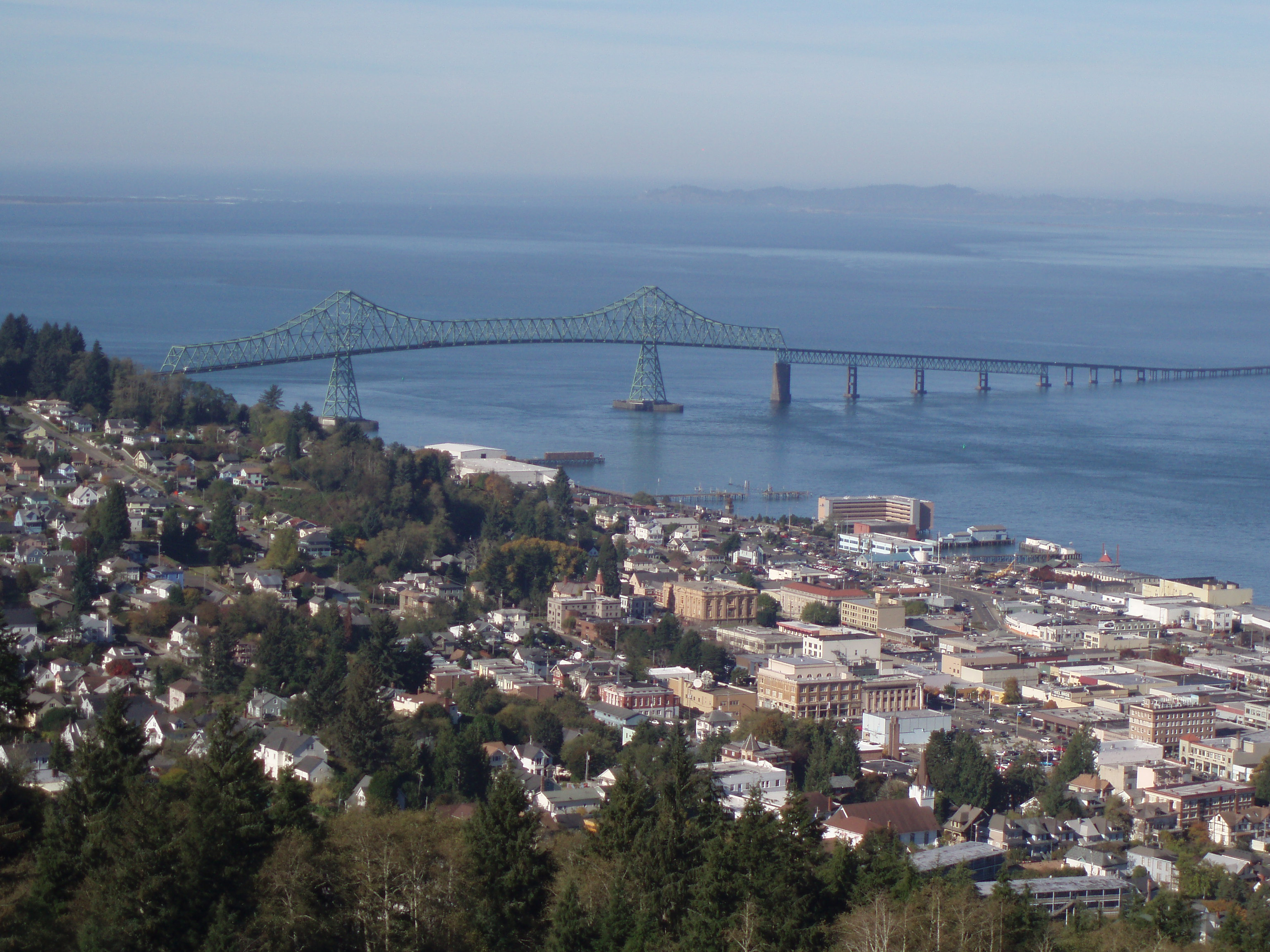 View of the Astoria-Megler Bridge from the top of Astoria Column.